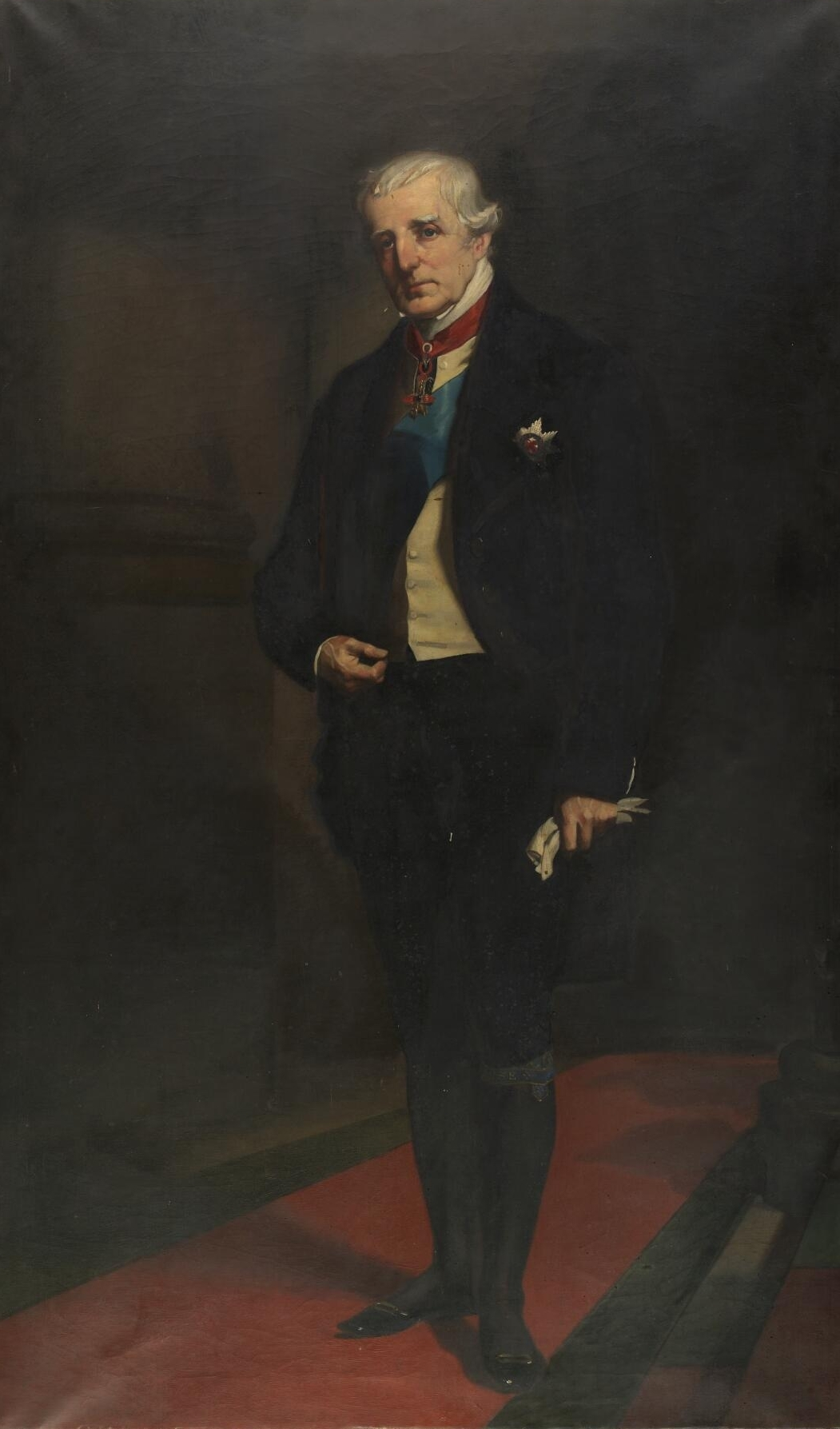 A painting from the Framed Works of Art collection at the National Library of wales.